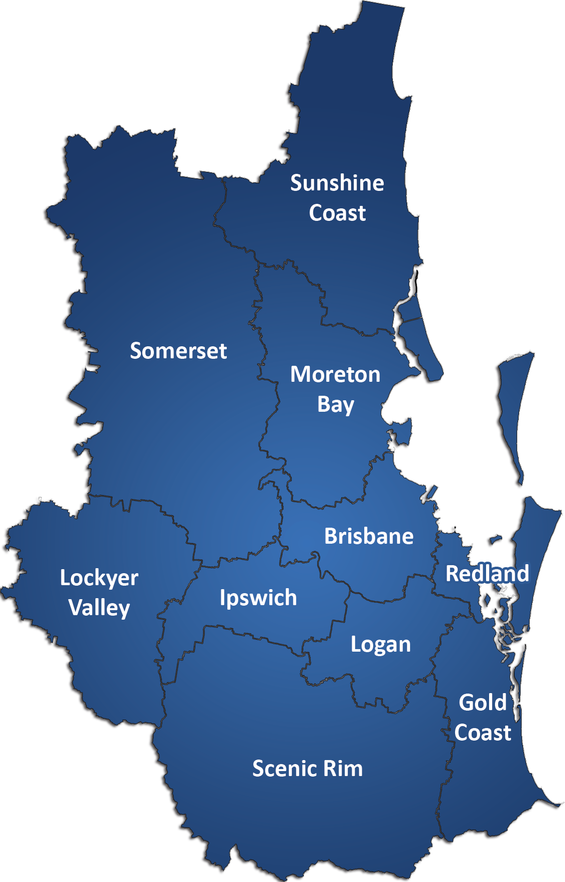 South East Queensland Local Government Areas from 15 March, 2008